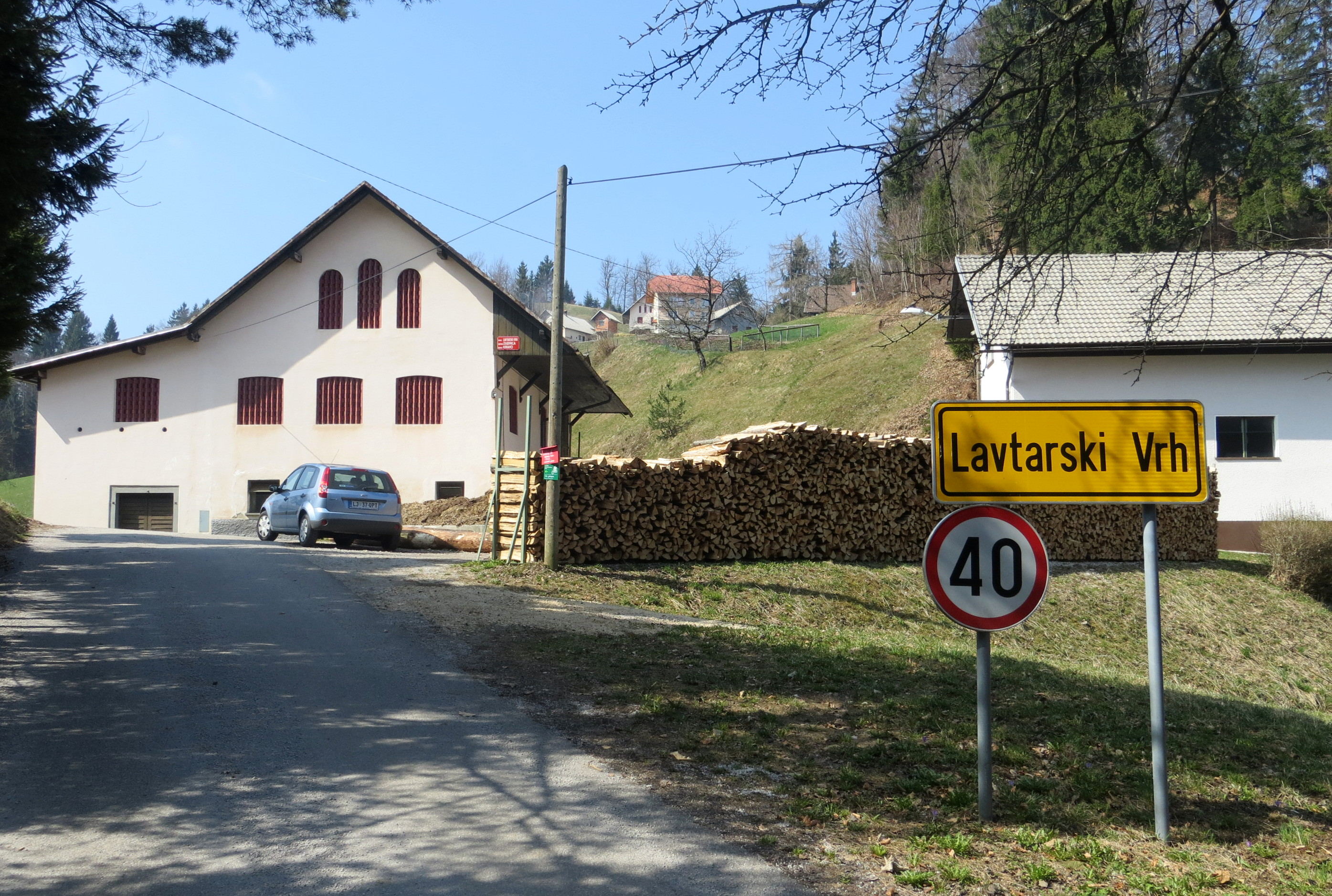 Lavtarski Vrh, Municipality of Kranj, Slovenia